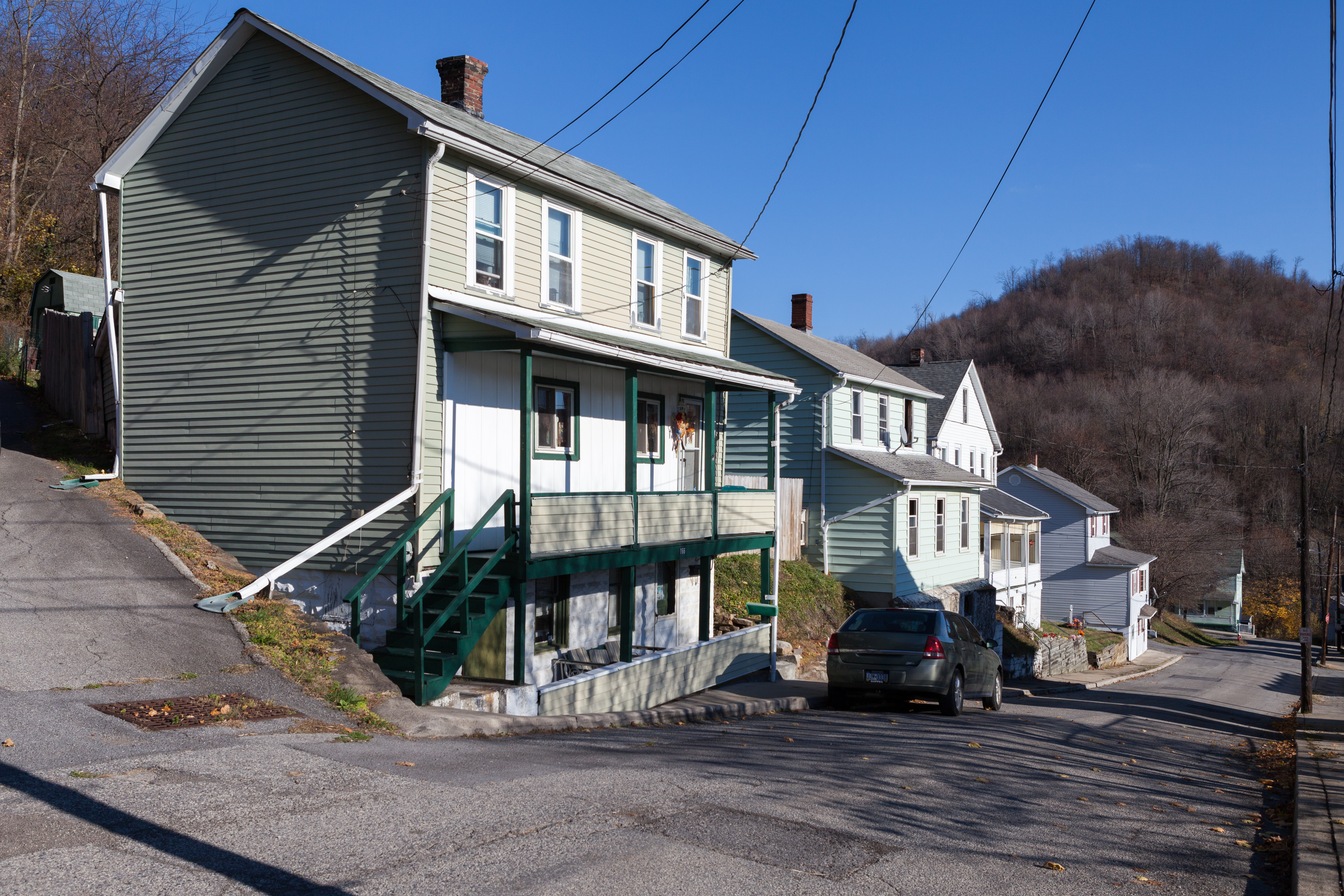 166 Benshoff St, in the Minersville Historic District, Johnstown, Pennsylvania, looking east.